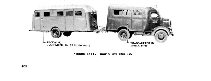 K-18 TRUCK AND K-19 TRAILER